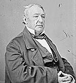 John Law, US Representative from Indiana